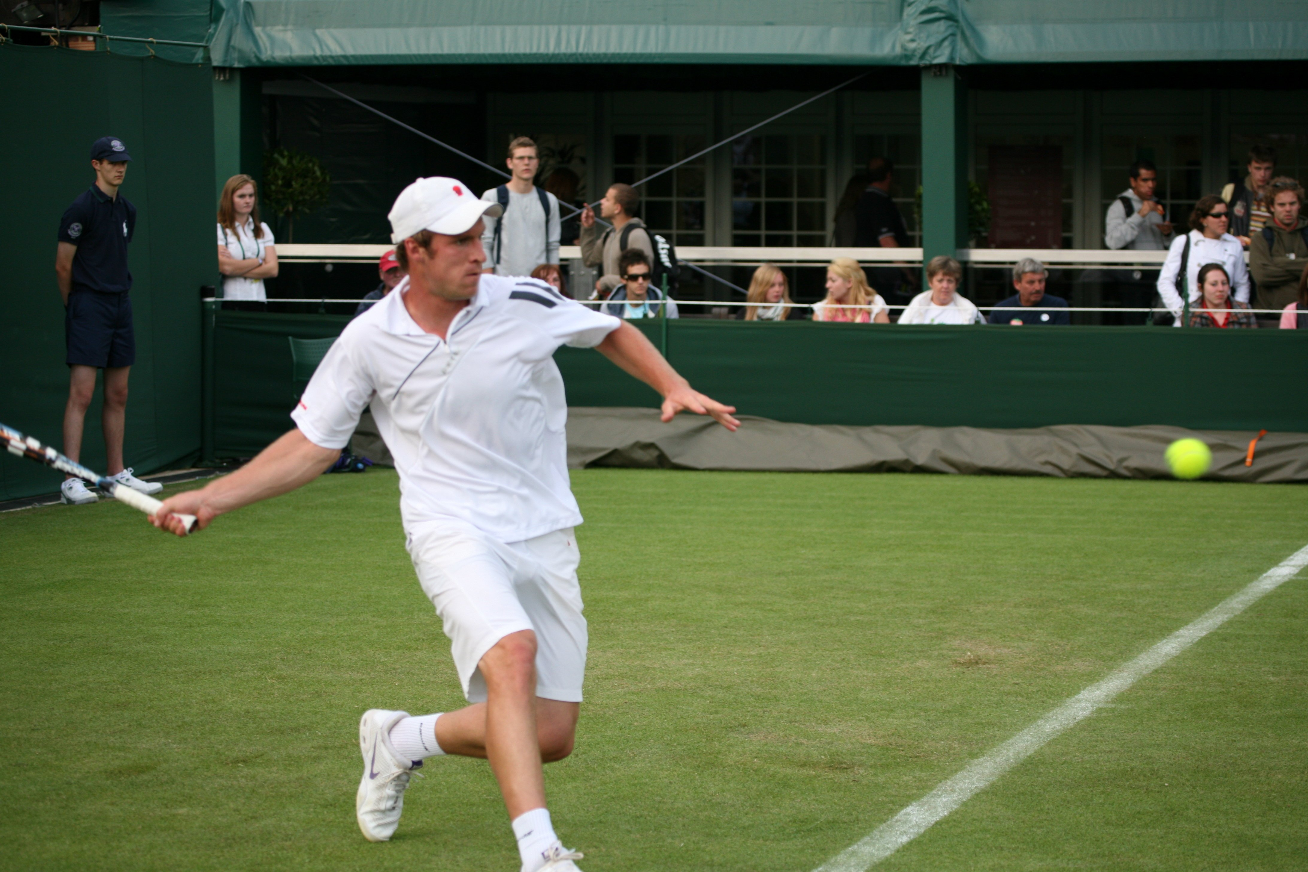 Grega Žemlja against Albert Montañés in the 2009 Wimbledon Championships first round